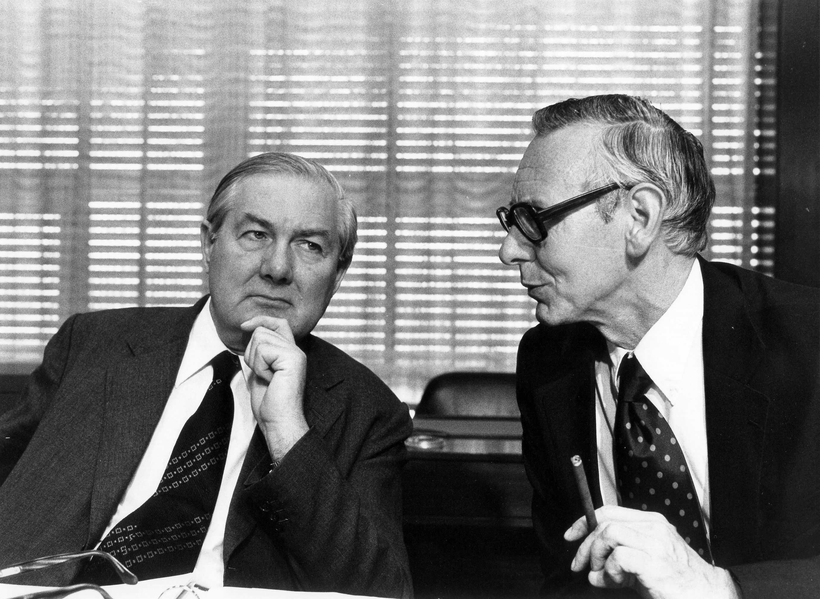 James Callaghan, British Secretary of State for Foreign and Commonwealth Affairs, on the left, and Max van der Stoel, Dutch Minister for Foreign Affairs